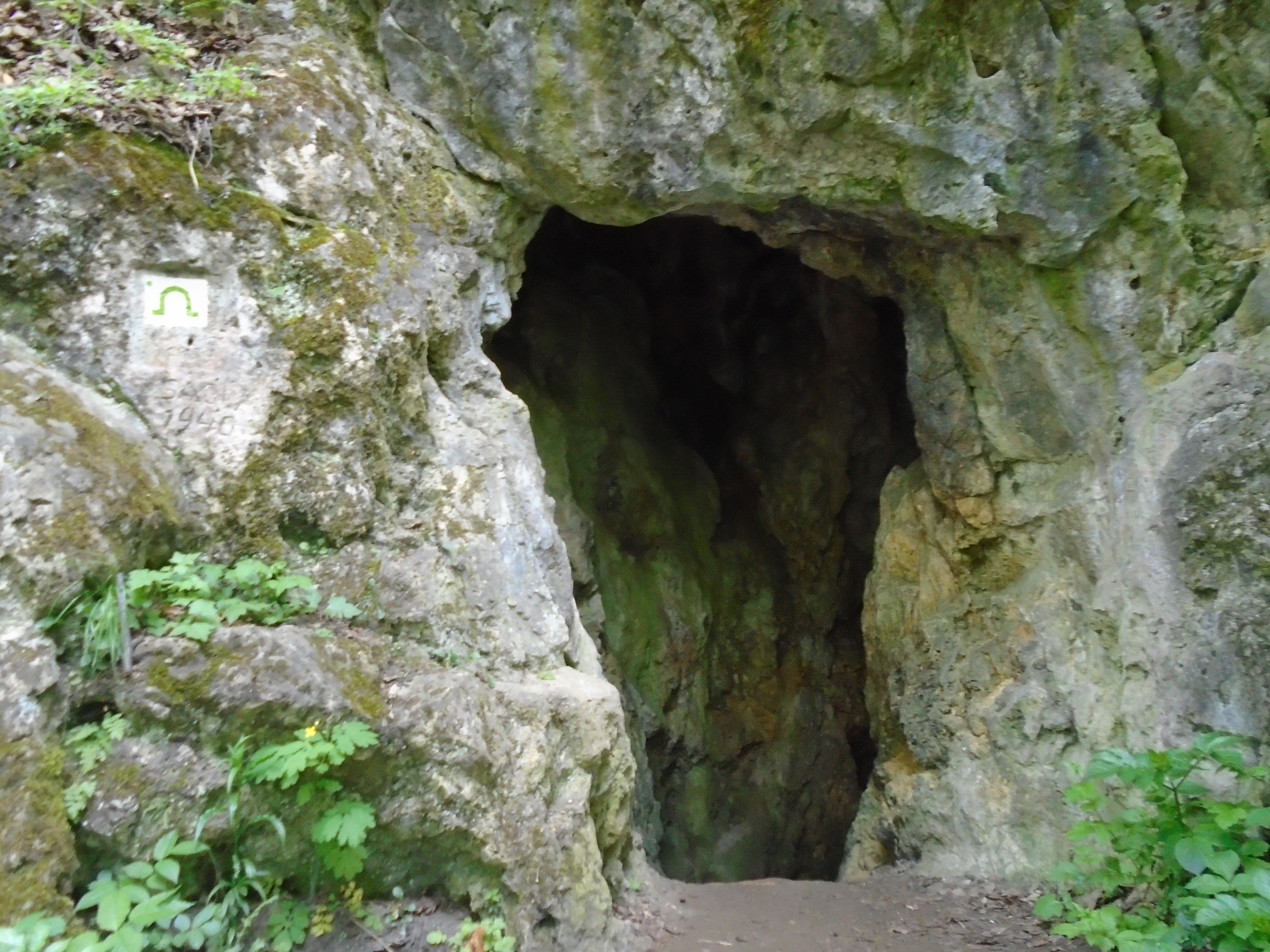 Exit of János-hegyi Cave.